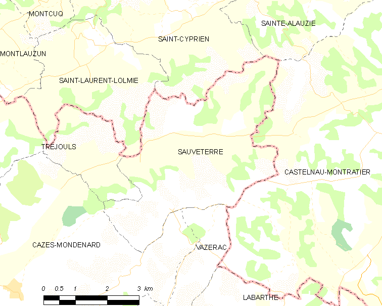 Map of French municipality Sauveterre